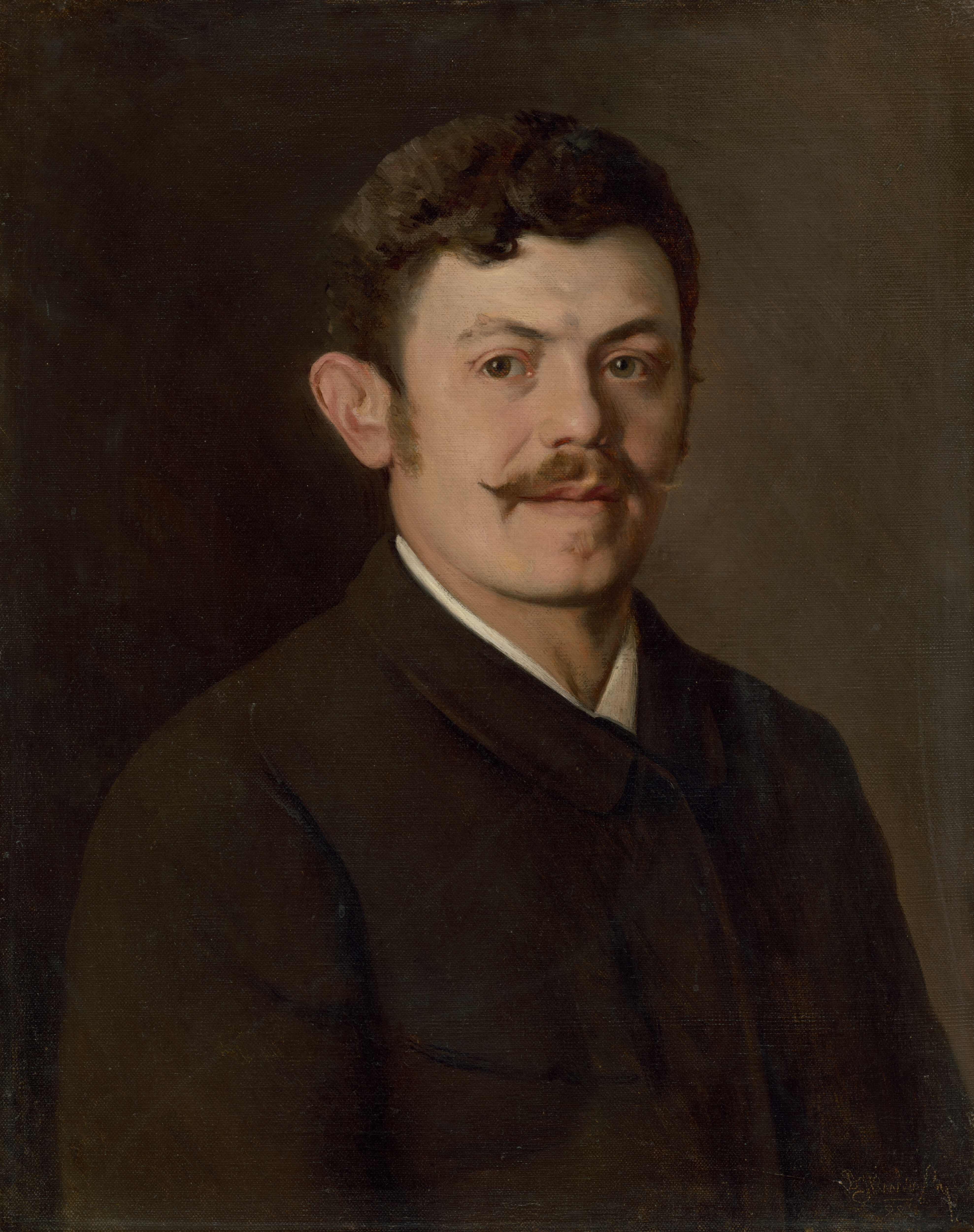 Dominik Skutecký - Autoportrét umelca (1887) - painting, property of Slovak national gallery